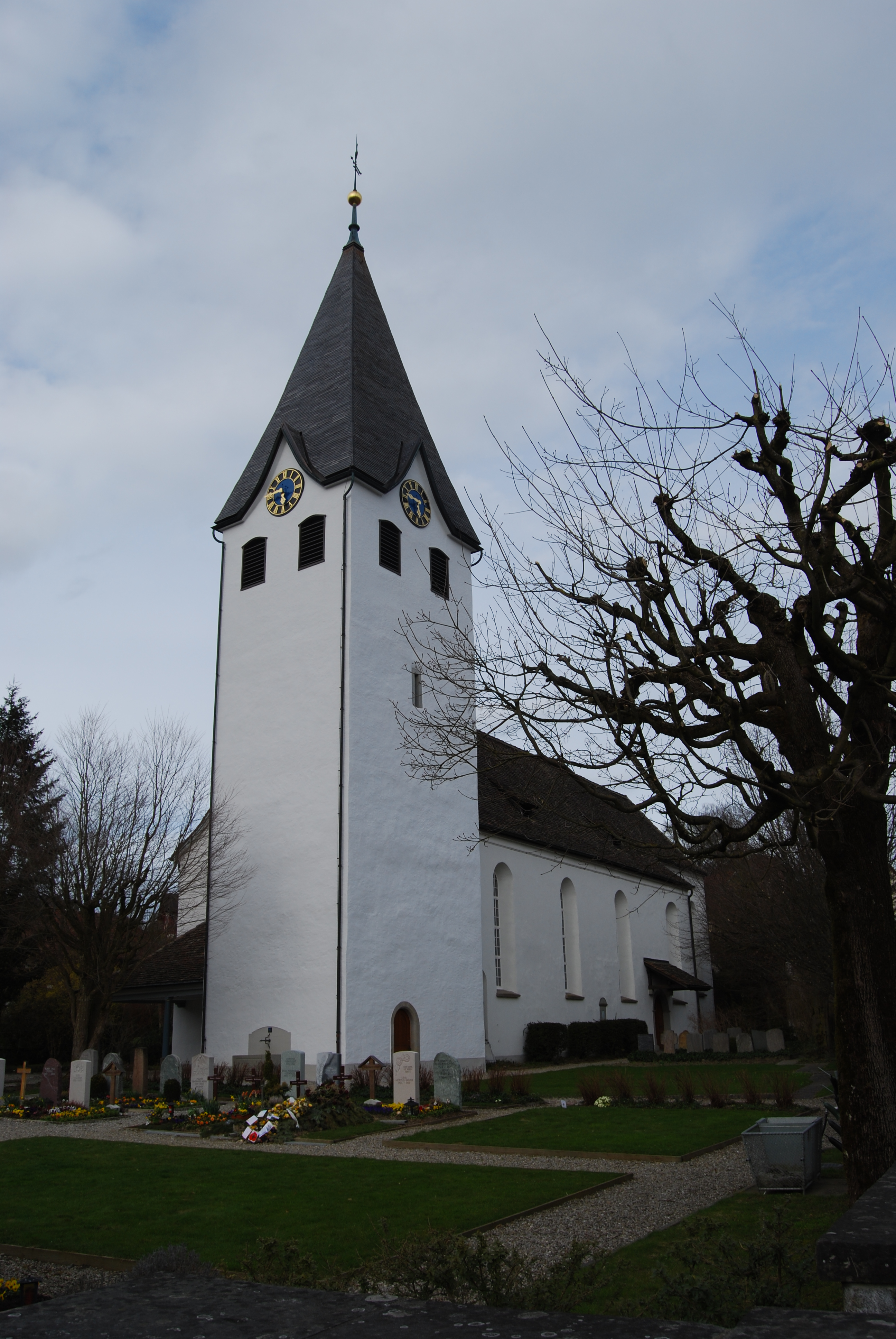 Protestant church of Sitterdorf, canton of Thurgovia, SwitzerlandEsperanto: Reformita preĝejo de Sitterdorf, Kantono Turgovio, Svislando